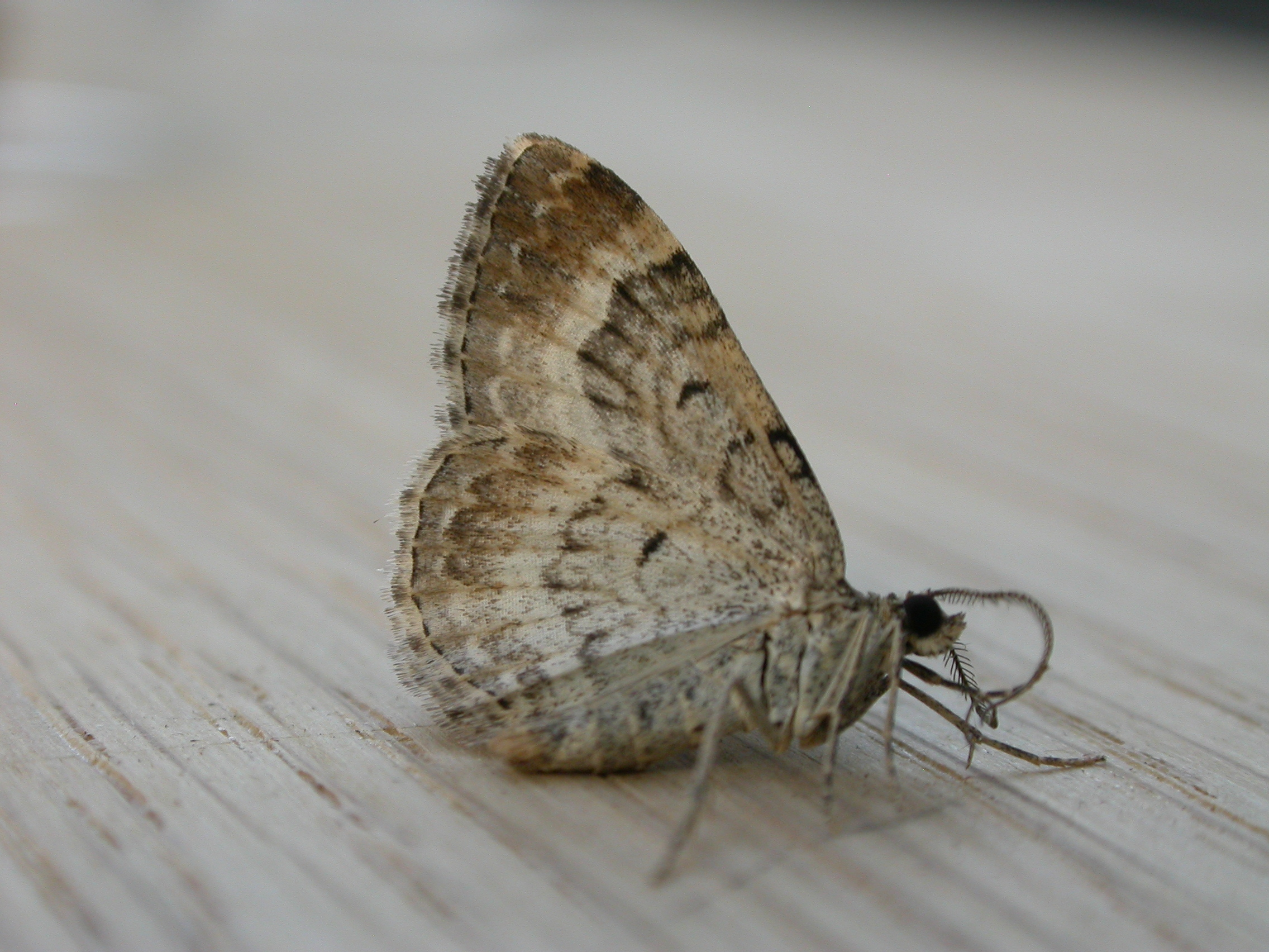 Xanthorhoe spadicearia ([Denis & Schiffermüller], 1775), Red Twin-spot Carpet, to Robinson trap, Hellerup, Denmark, 21/22 May 2012